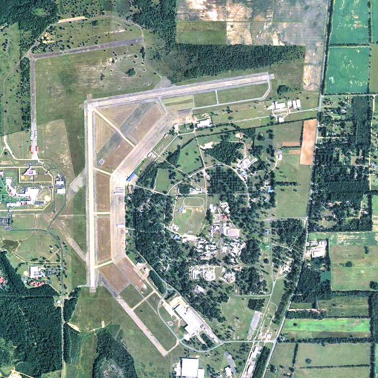 USGS digital orthophoto of Marianna Municipal Airport in Florida